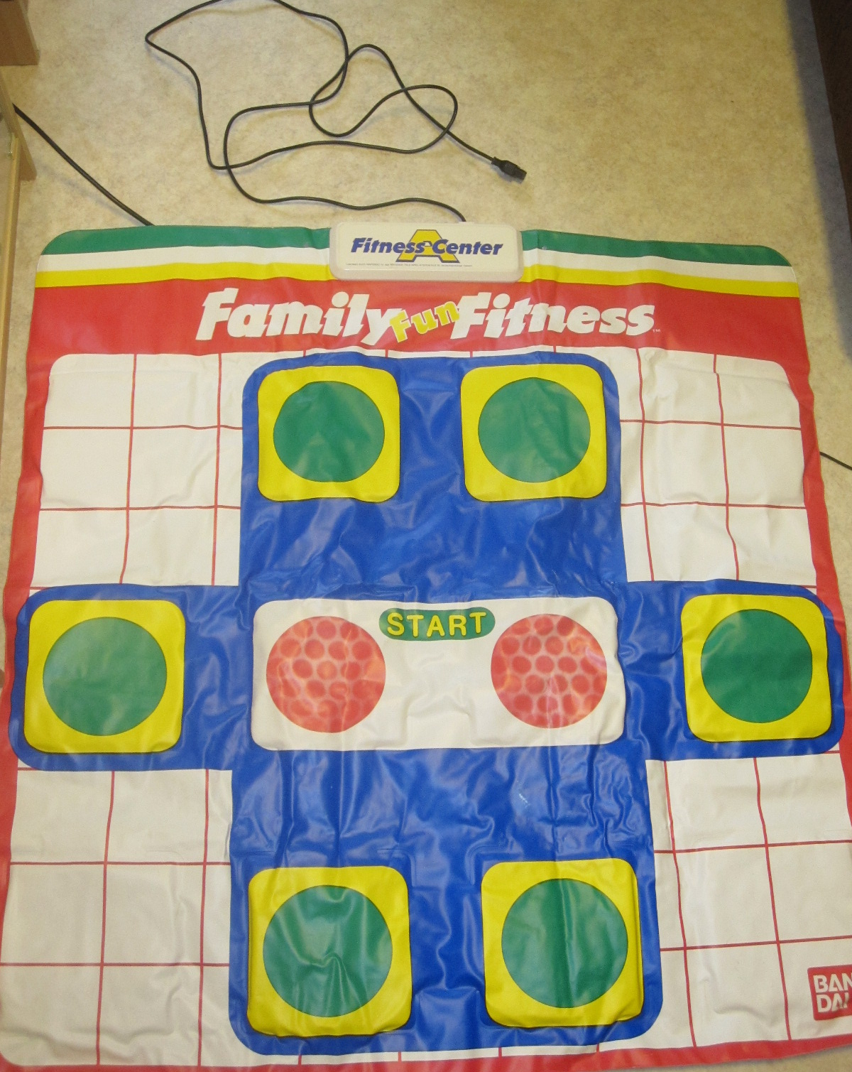 Nintendo Entertainment System console published game controller Power Pad. The European version, which is sold in the name Family Fun Fitness.